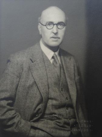 Wilfrid Ernest Sanderson, English composer 1878-1935